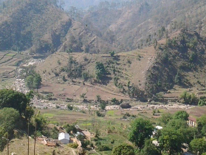 this is another type of photo from the village.